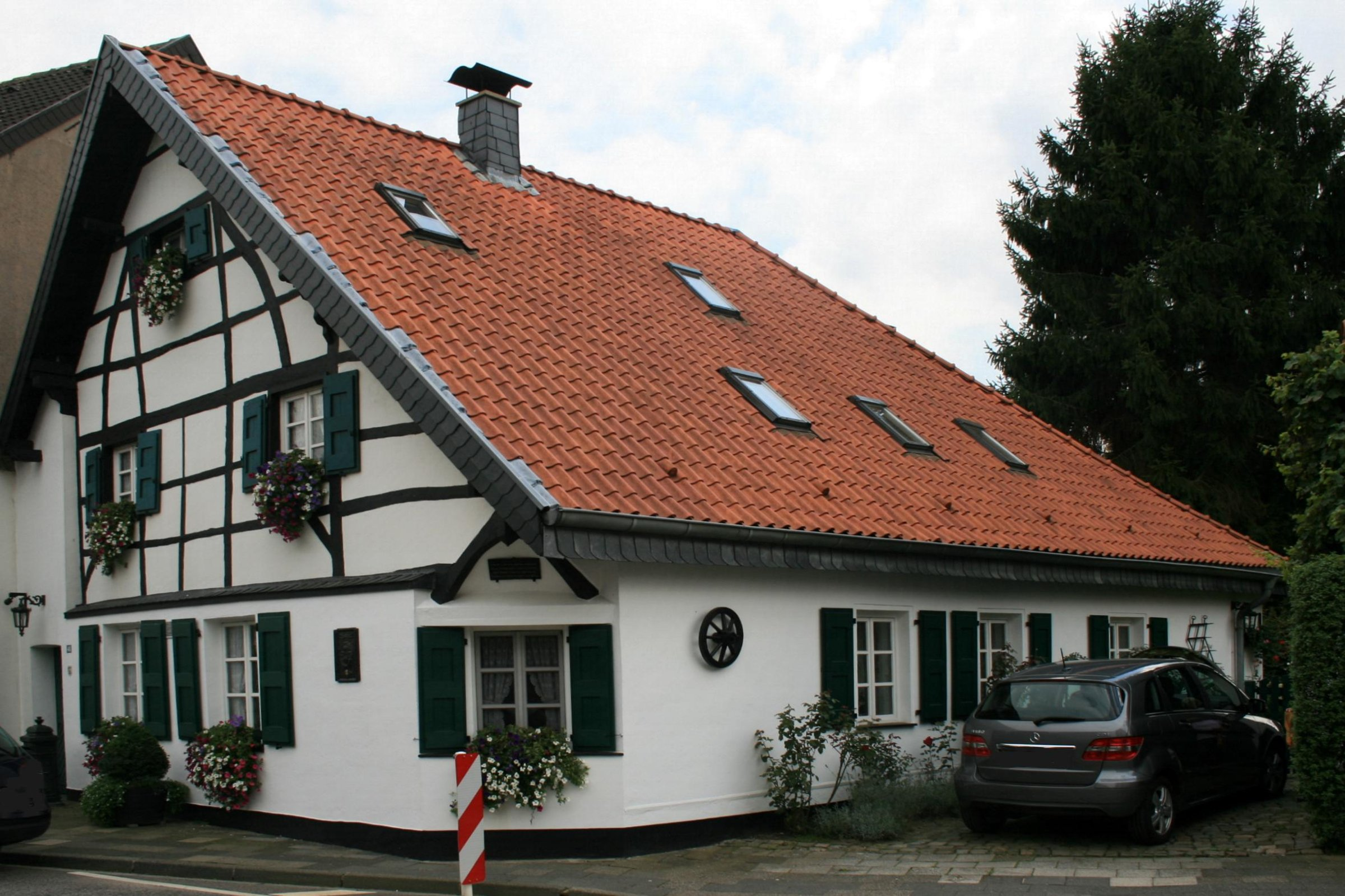 Cultural heritage monument No. S 004 in Mönchengladbach